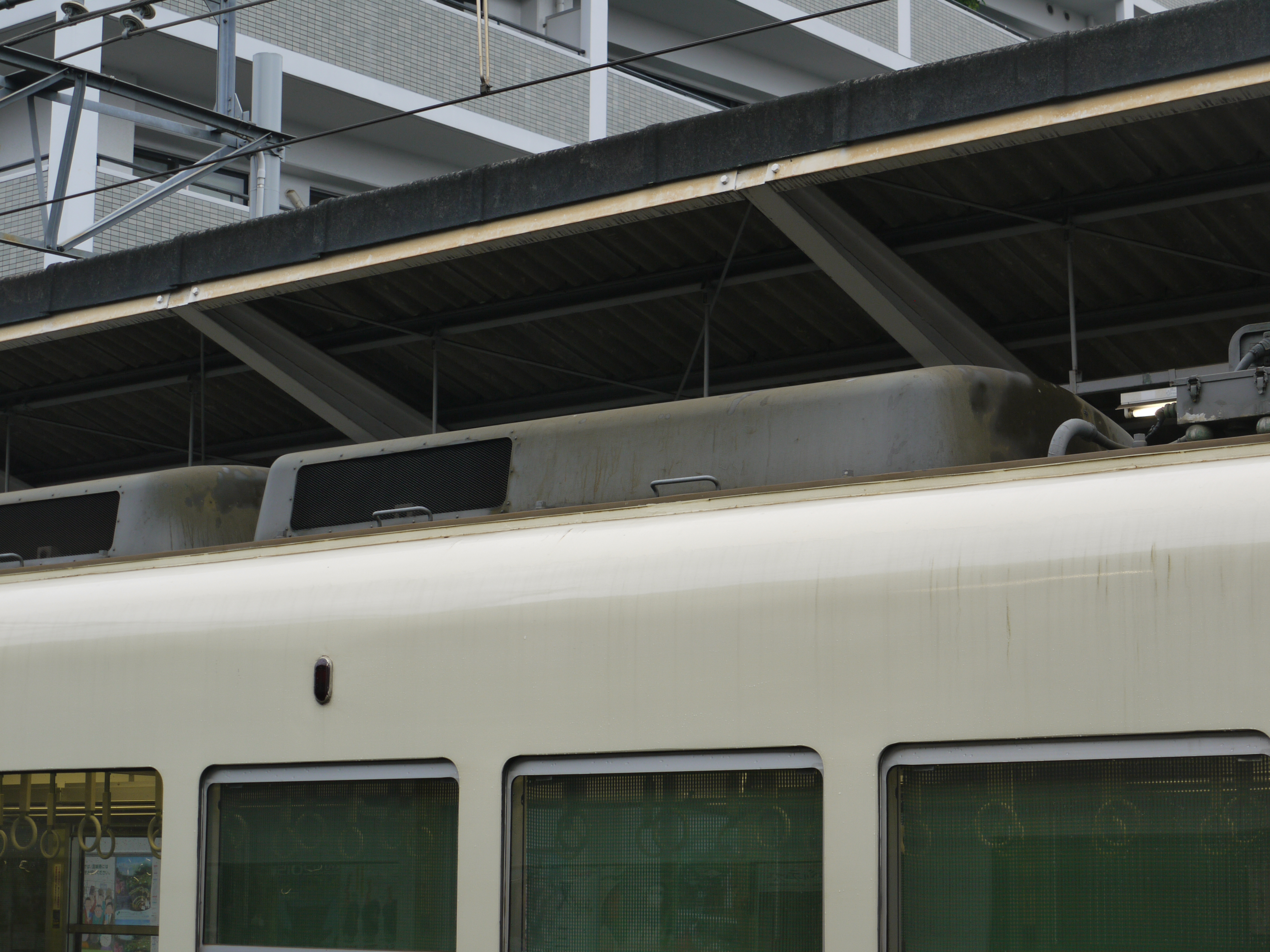 An air conditioner type RPU 3304 on Eiden Deo 724